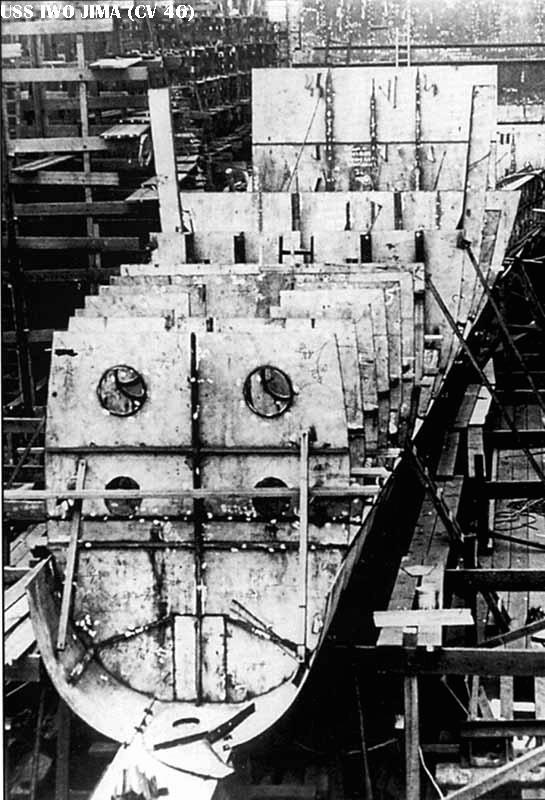 The U.S. Navy aircraft carrier USS Iwo Jima (CV-46) under construction at Newport News Shipbuilding & Dry Dock Co., Newport News, Virginia (USA). Iwo Jima was canceled on 12 August 1945. Her partially completed hull was scrapped.